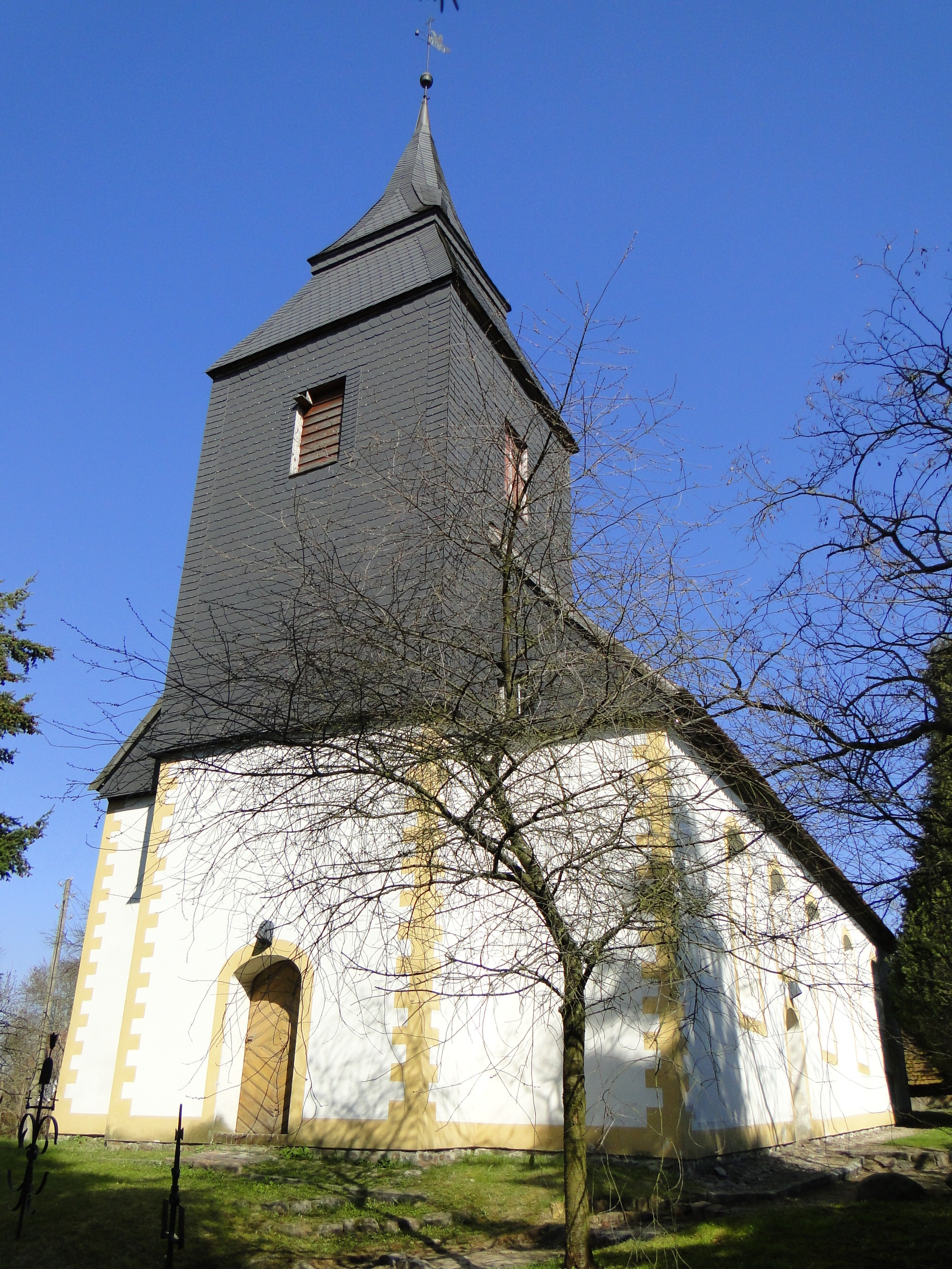 Church in Wokuhl, disctrict Mecklenburg-Strelitz, Mecklenburg-Vorpommern, Germany